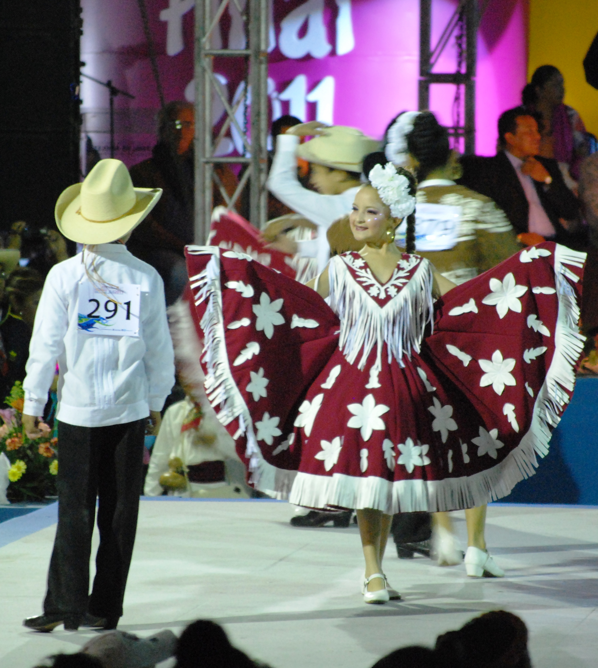 Dancers at the Concurso Nacional de Baile de Huapango in Pinal de Amoles, Querétaro, Mexico